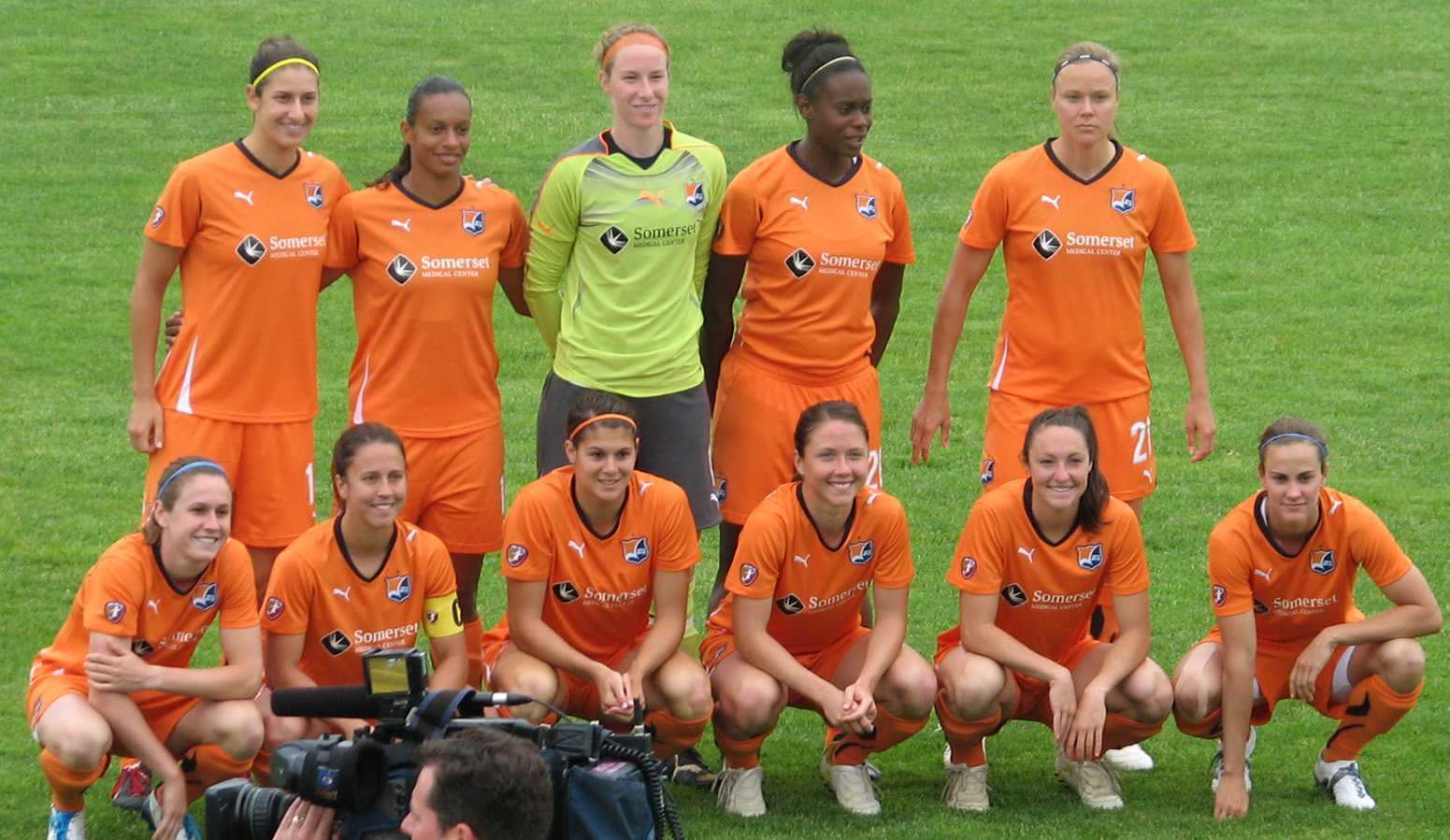 2010 NJ Sky Blue FC